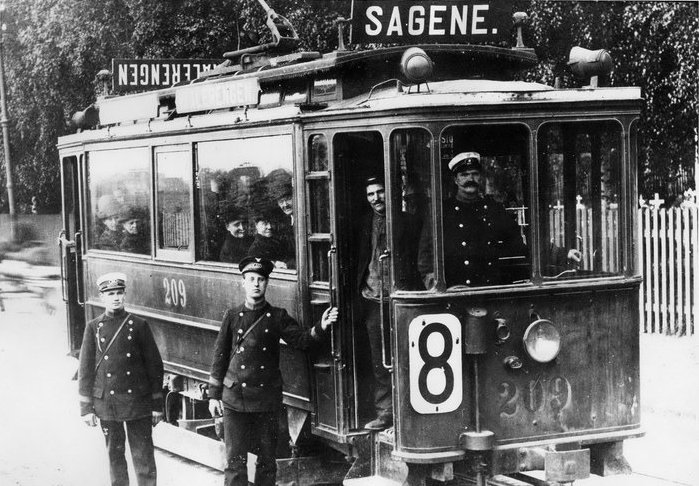 Class S tram of Kristiania Elektriske Sporvei in Kierschows gate.